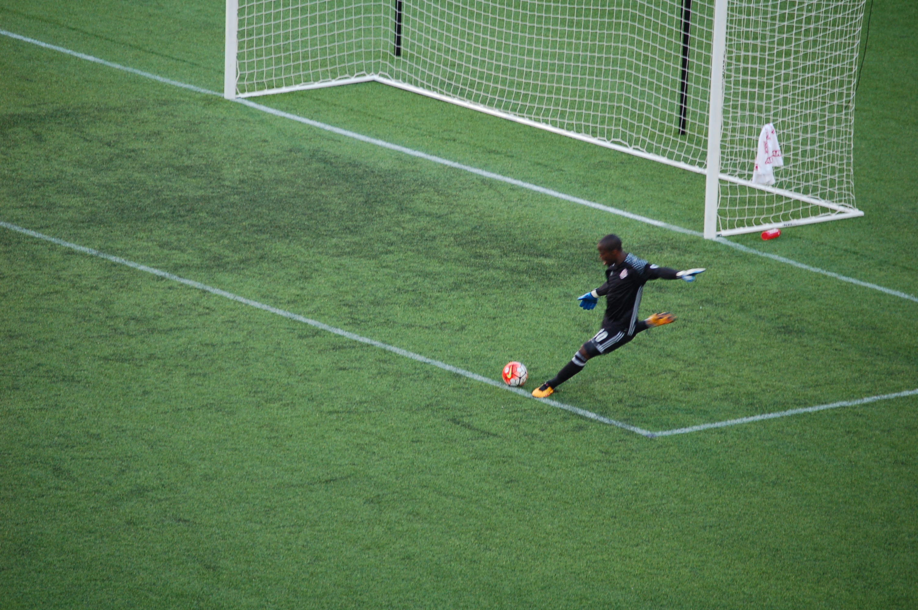 Quillan Roberts (TFC) makes goal kick Taken during a match between FC Cincinnati and Toronto FC II at Nippert Stadium in Cincinnati on June 18, 2016.